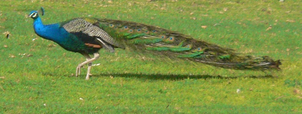 צולם בגן הזואולוגי בת"א Taken in Tel Aviv Zoological Gardens טווס Peacock Pavo cristatus